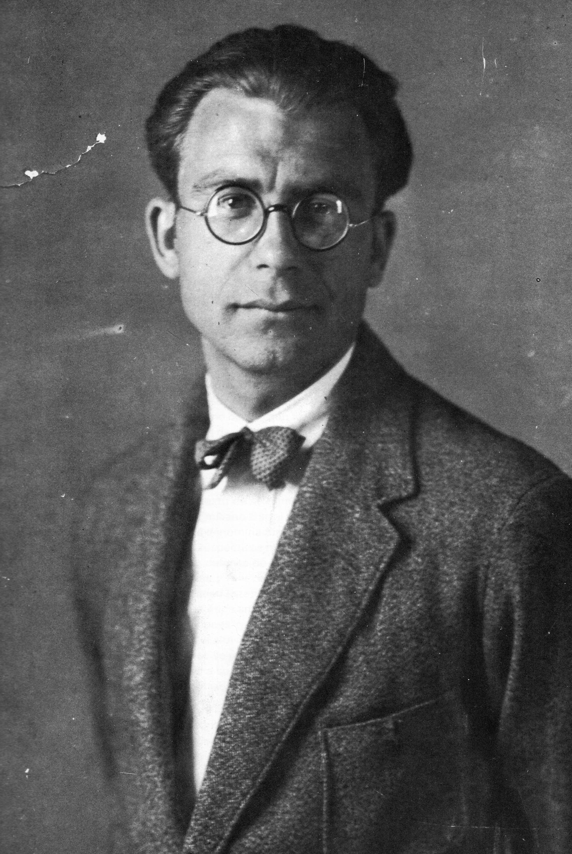 Portrait of Francisco Pérez Mateo (1903-1936) ca. 1932, (the source not listed or mentioned is the author of the photograph).